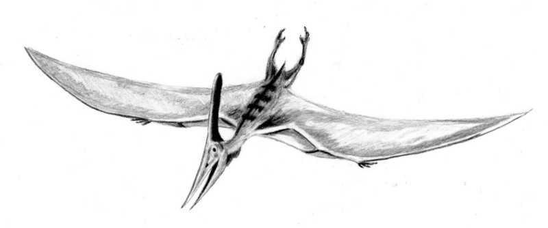 Pteranodon, pencil drawing Author:User:ArthurWeasley